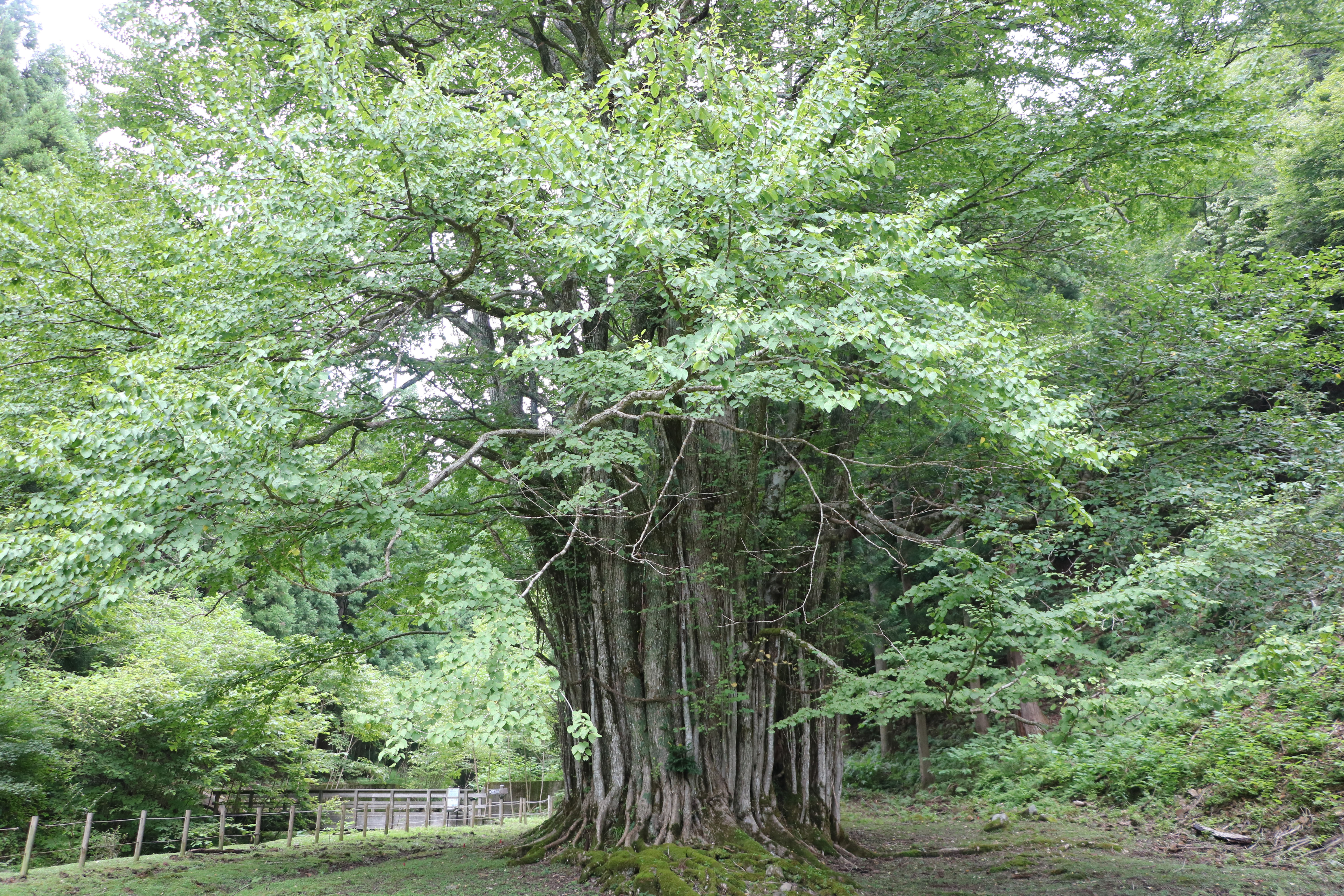 Itoi-no-Okatsura